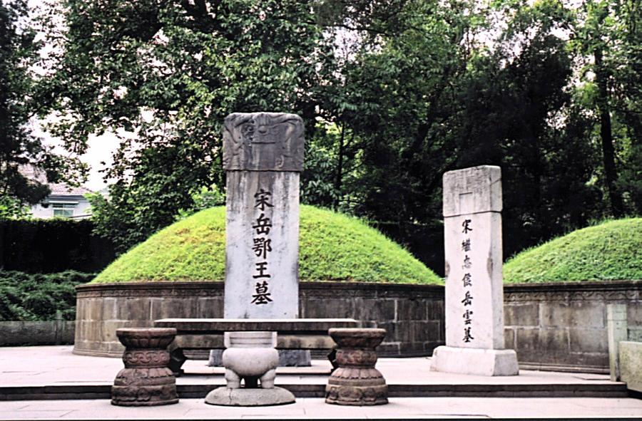 Tomb of Yue Fei, Hangzhou